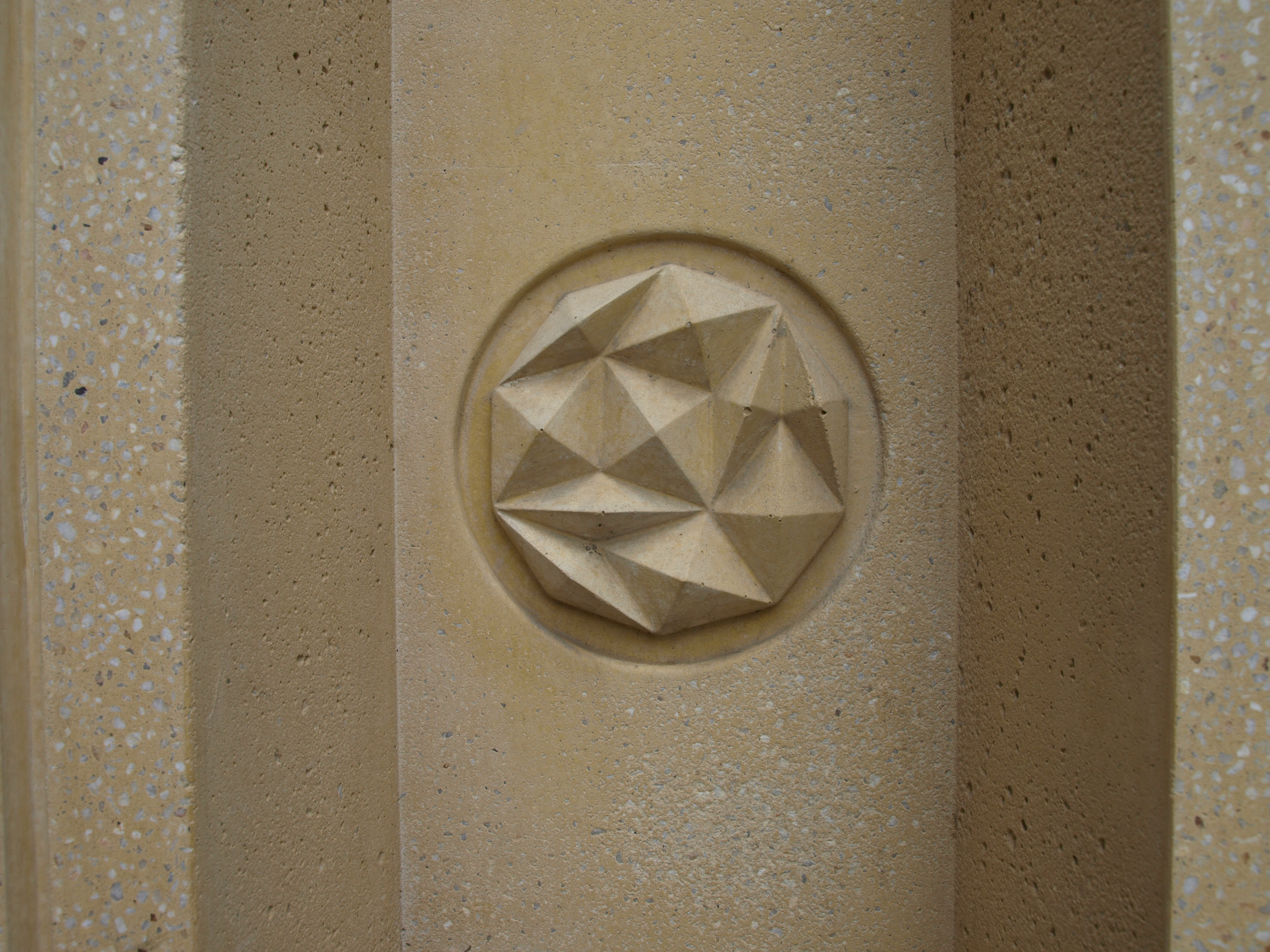 sign of the building Rozet in Arnhem, Netherlands